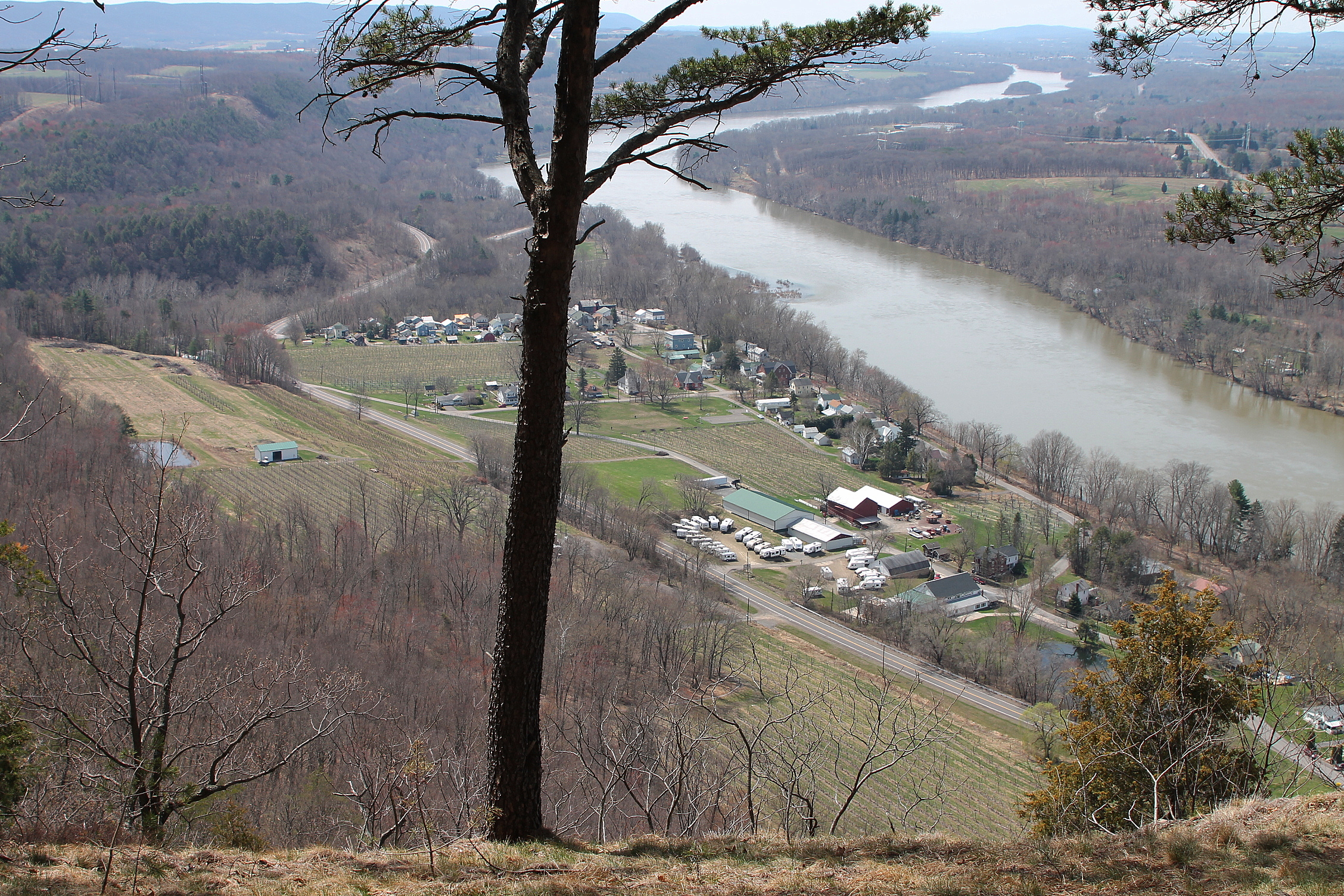 Wapwallopen, Pennsylvania from Council Cup